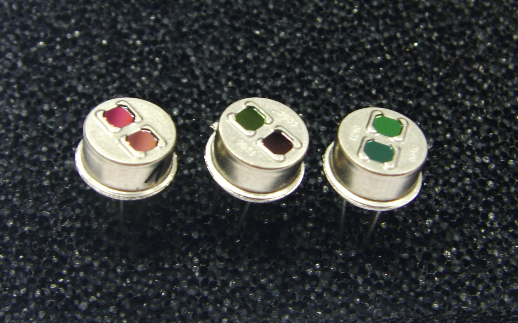 Double thermopile sensors in TO-5 package with infrared filters on the front.